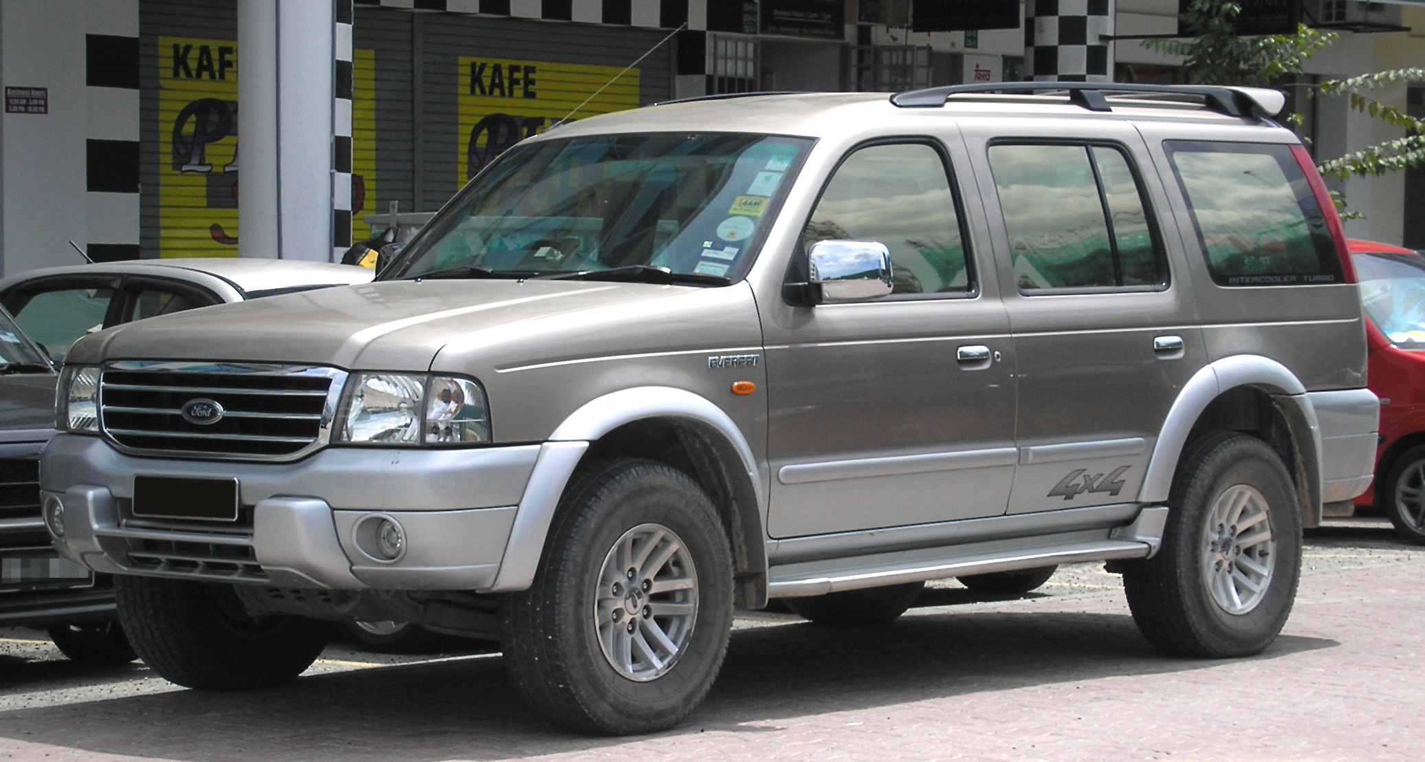 Front-side shot of a first generation Ford Everest, in Serdang, Selangor, Malaysia.